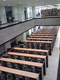 This is a library of UI.